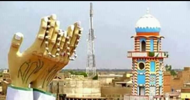 گھنٽاگهر چوڪ